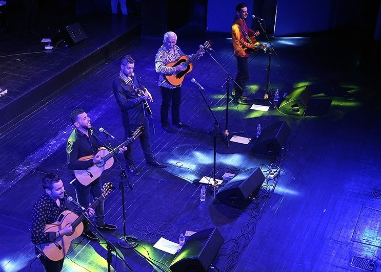 Gipsy Kings concert in Tehran's Vahdat Hall